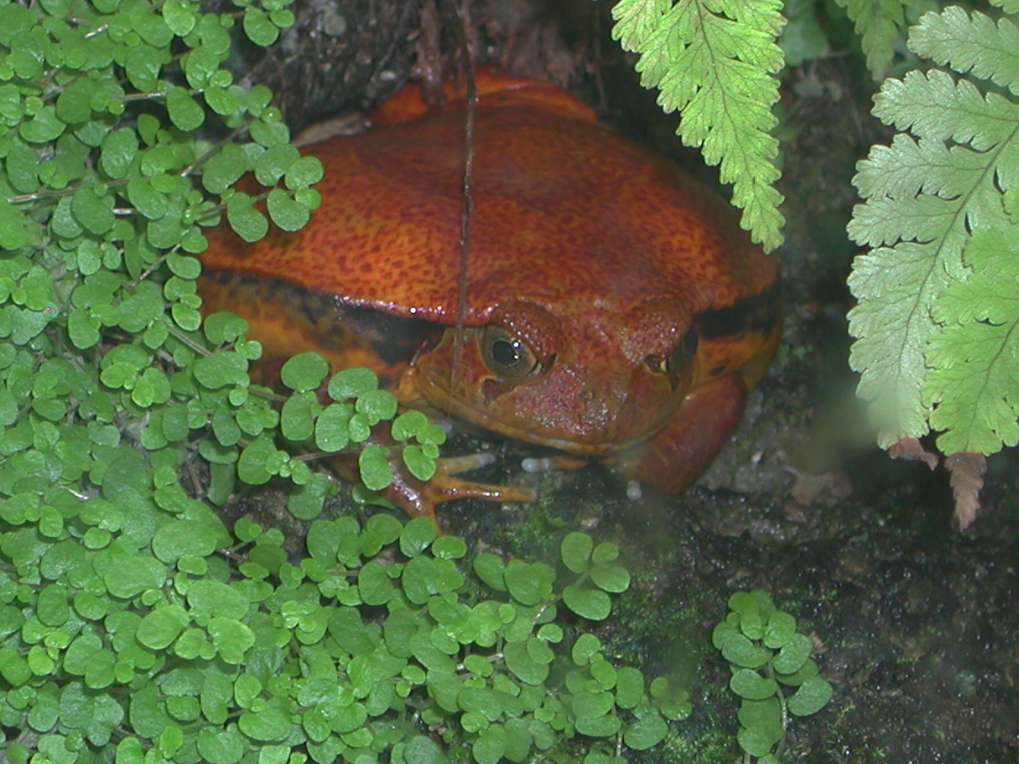 Tomatenfrosch (Dyscophus antongilli) Photo taken in the Tierpark Dählhölzli in Berne Source: photo uploaded by User:RicciSpeziari. Photographer: Riccardo Speziari